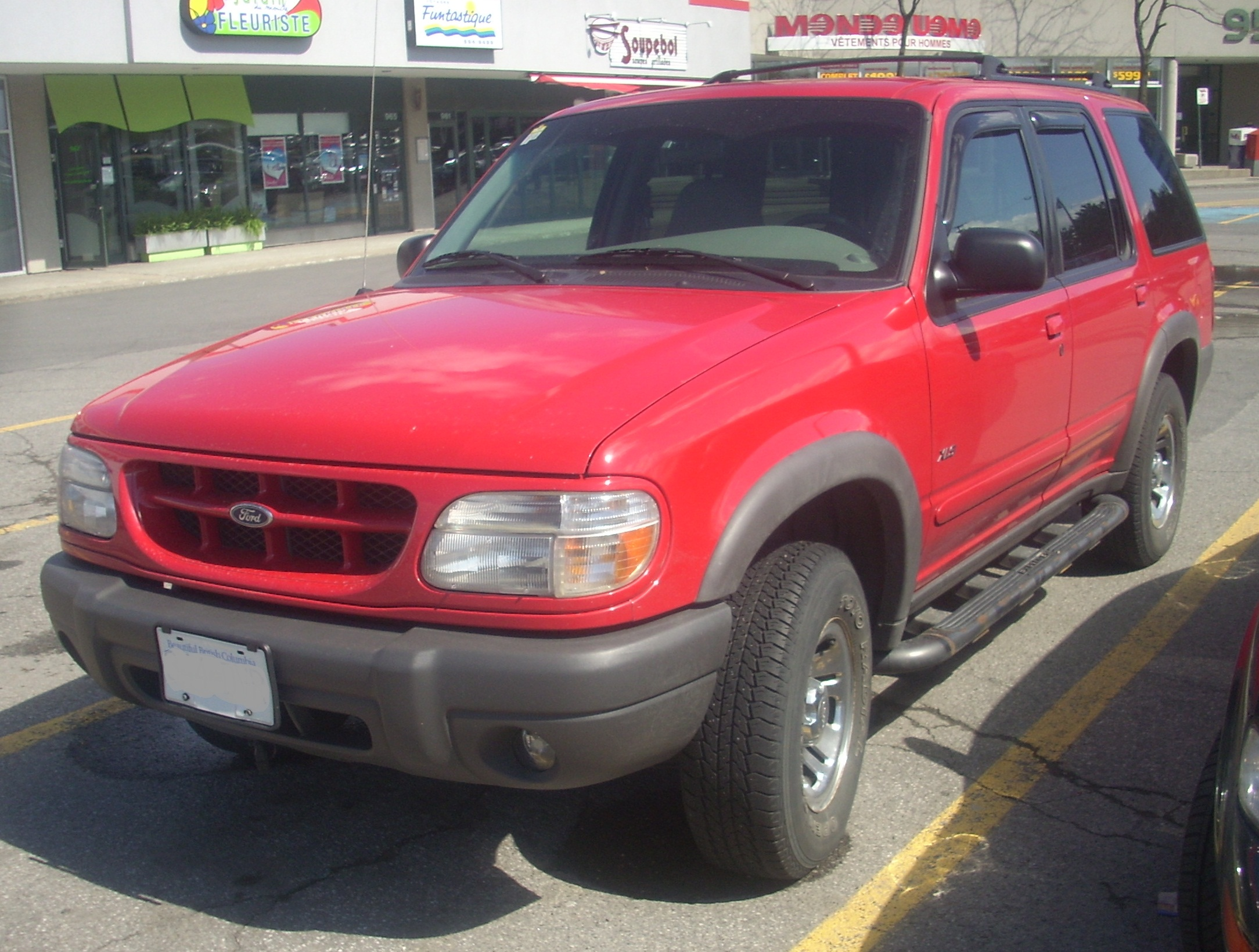 1999-2001 Ford Explorer photographed in Pointe Claire, Quebec, Canada.